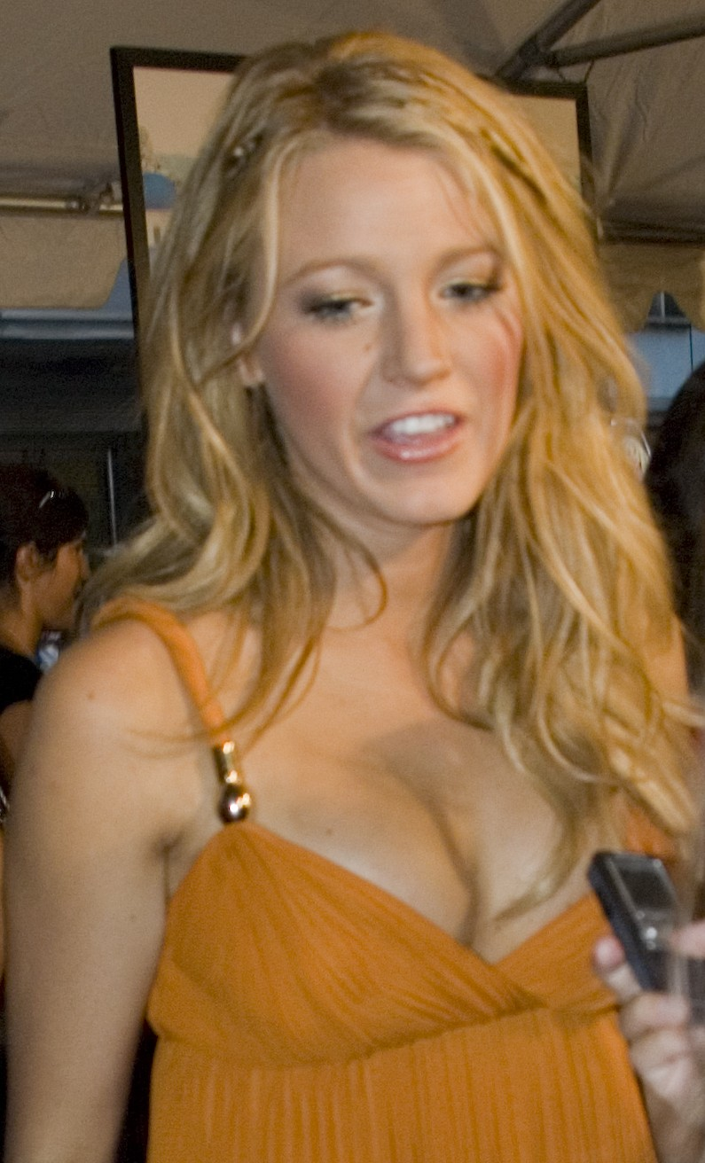 Blake Lively at the New York Premiere of The Sisterhood of the Traveling Pants